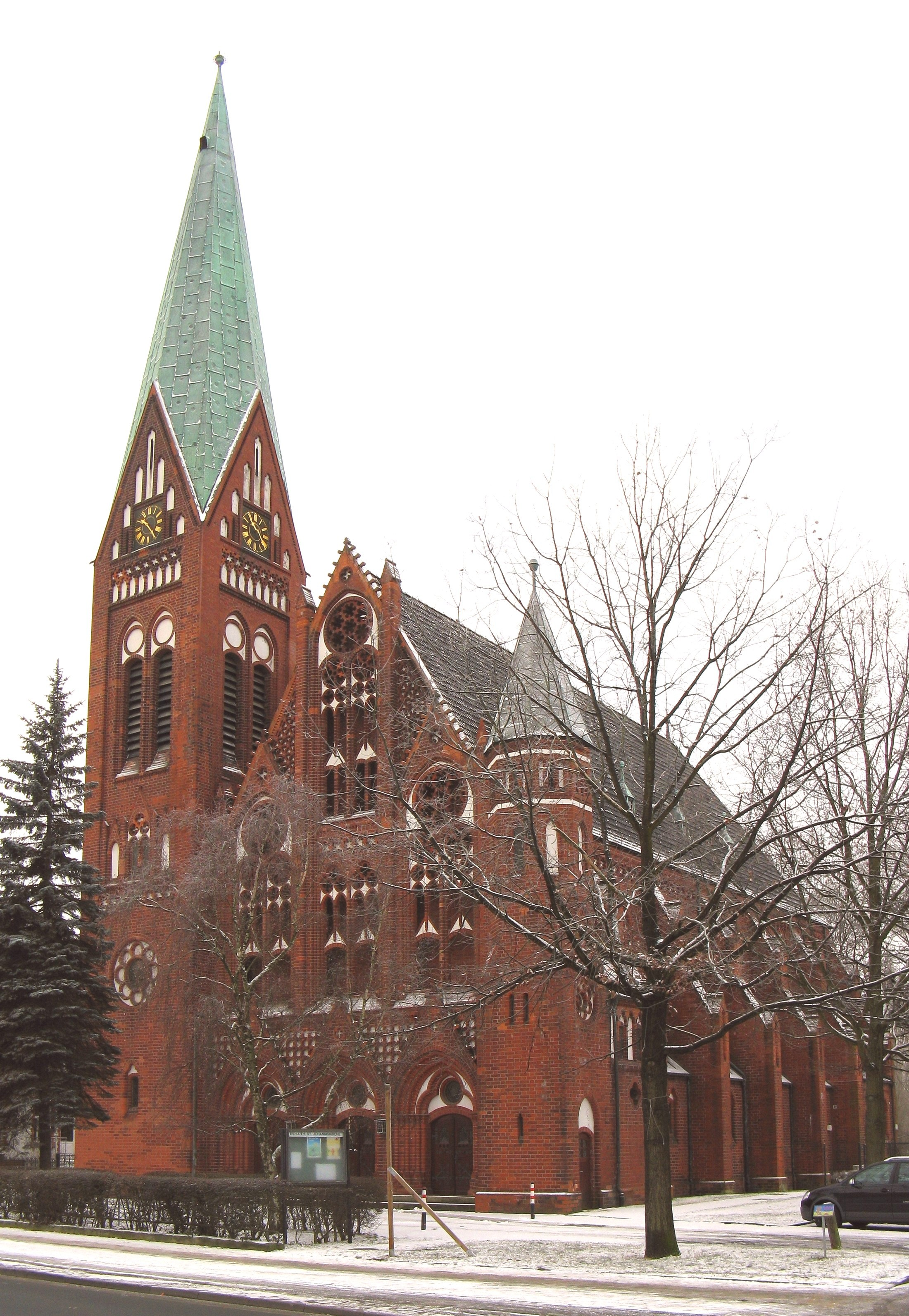 Church "St. Johannis" in Hannover-Misburg (Germany, Lower Saxony)